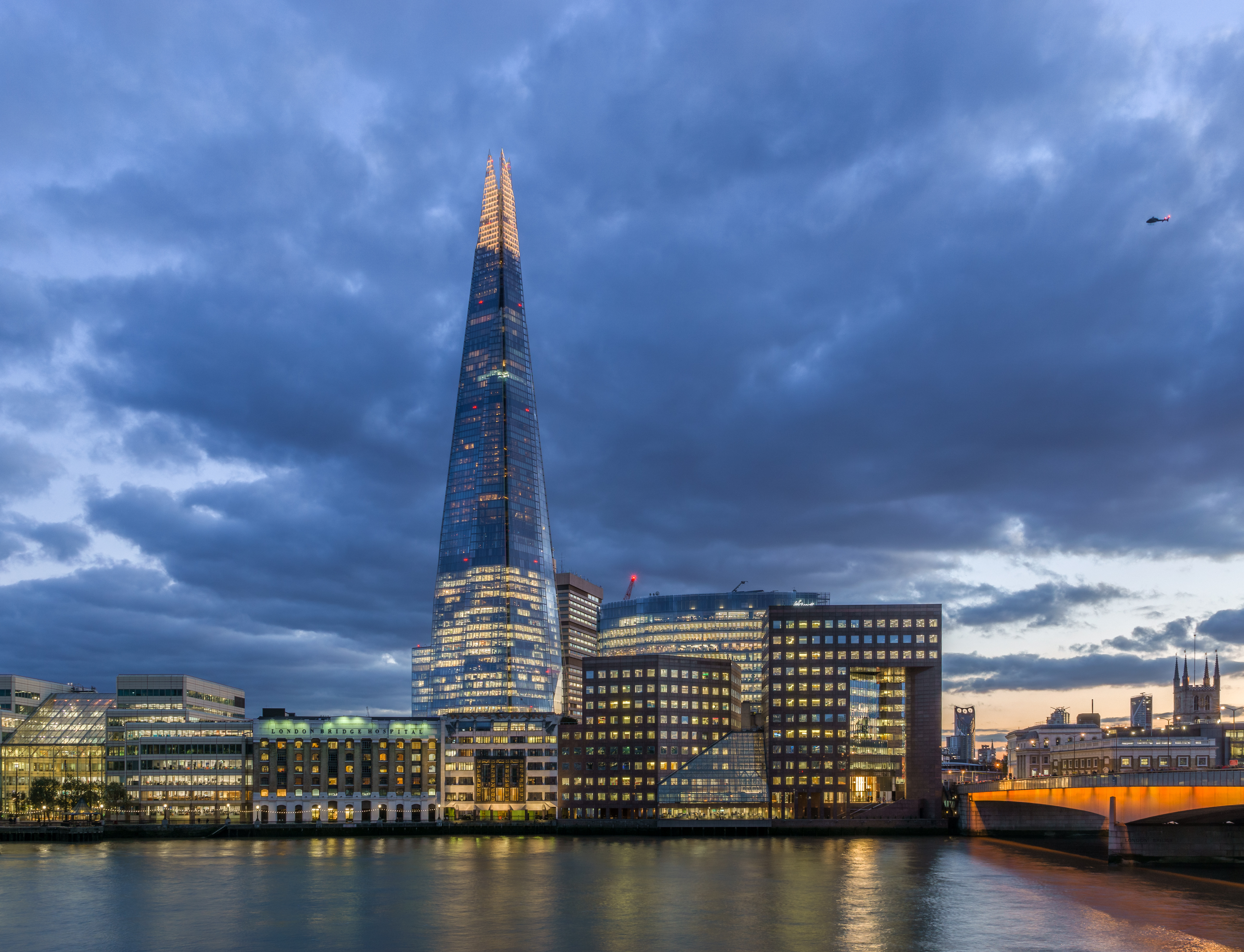 The Shard at sunset.